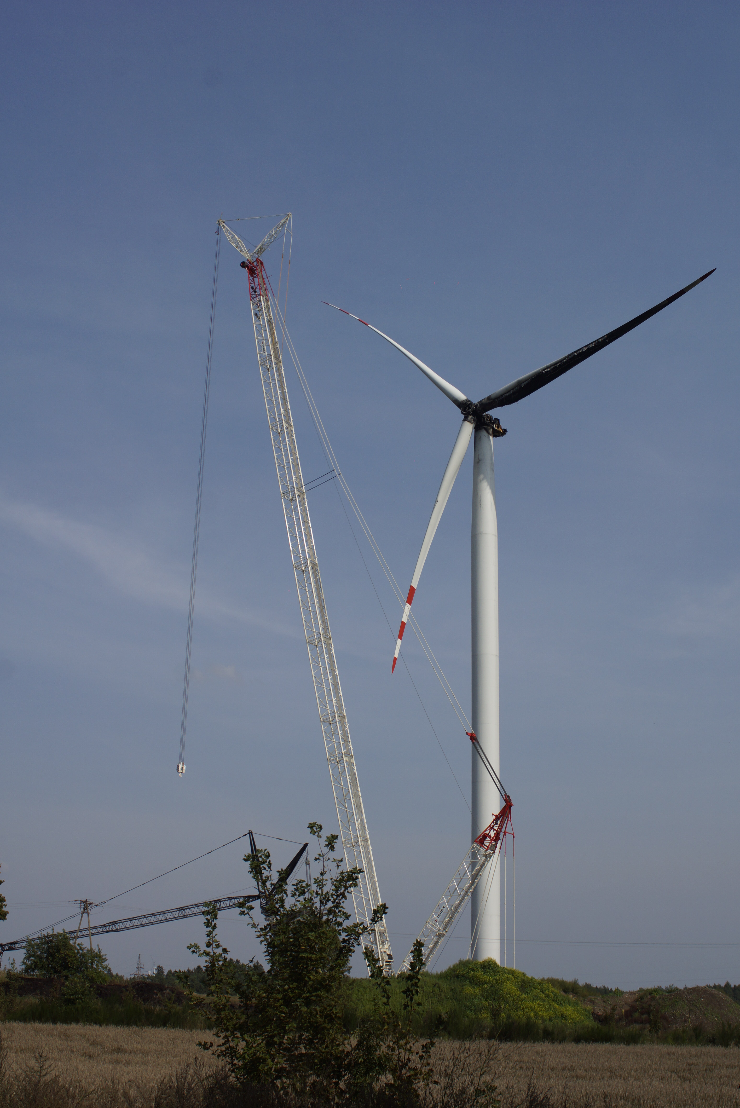 Damaged/Burnt wind turbine (REpower MM92) of Jarogniew-Mołtowo wind farm, Poland